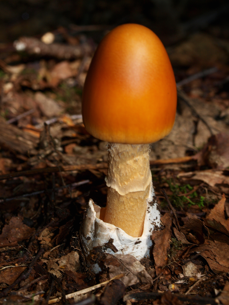 Amanita crocea south side of Gilllies Hill 7-26-11